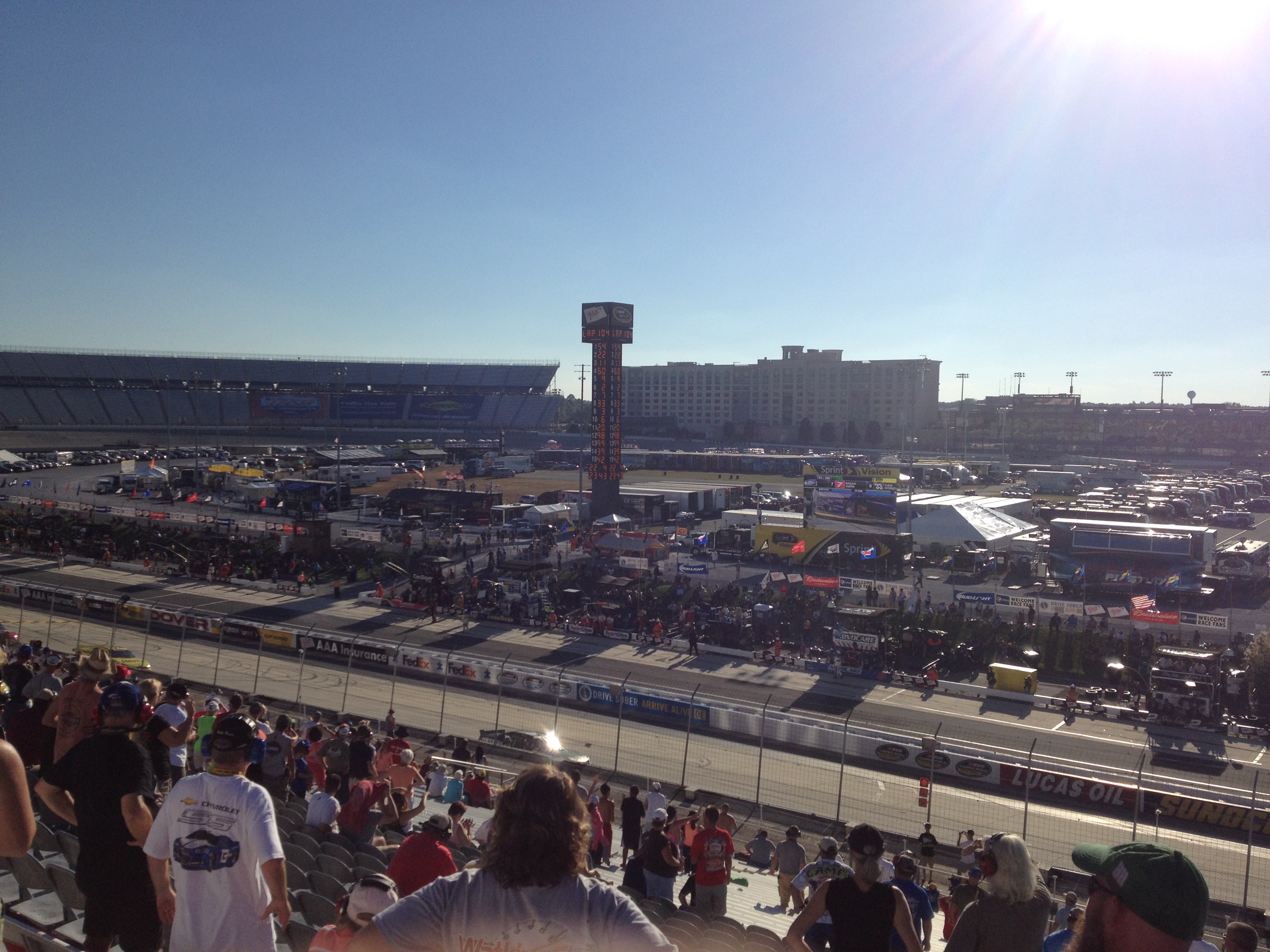 The 2014 Dover 200 at Dover International Speedway viewed from the frontstretch. Kyle Busch (#54) leads Joey Logano (#22) on lap 104 following a restart from a debris caution.